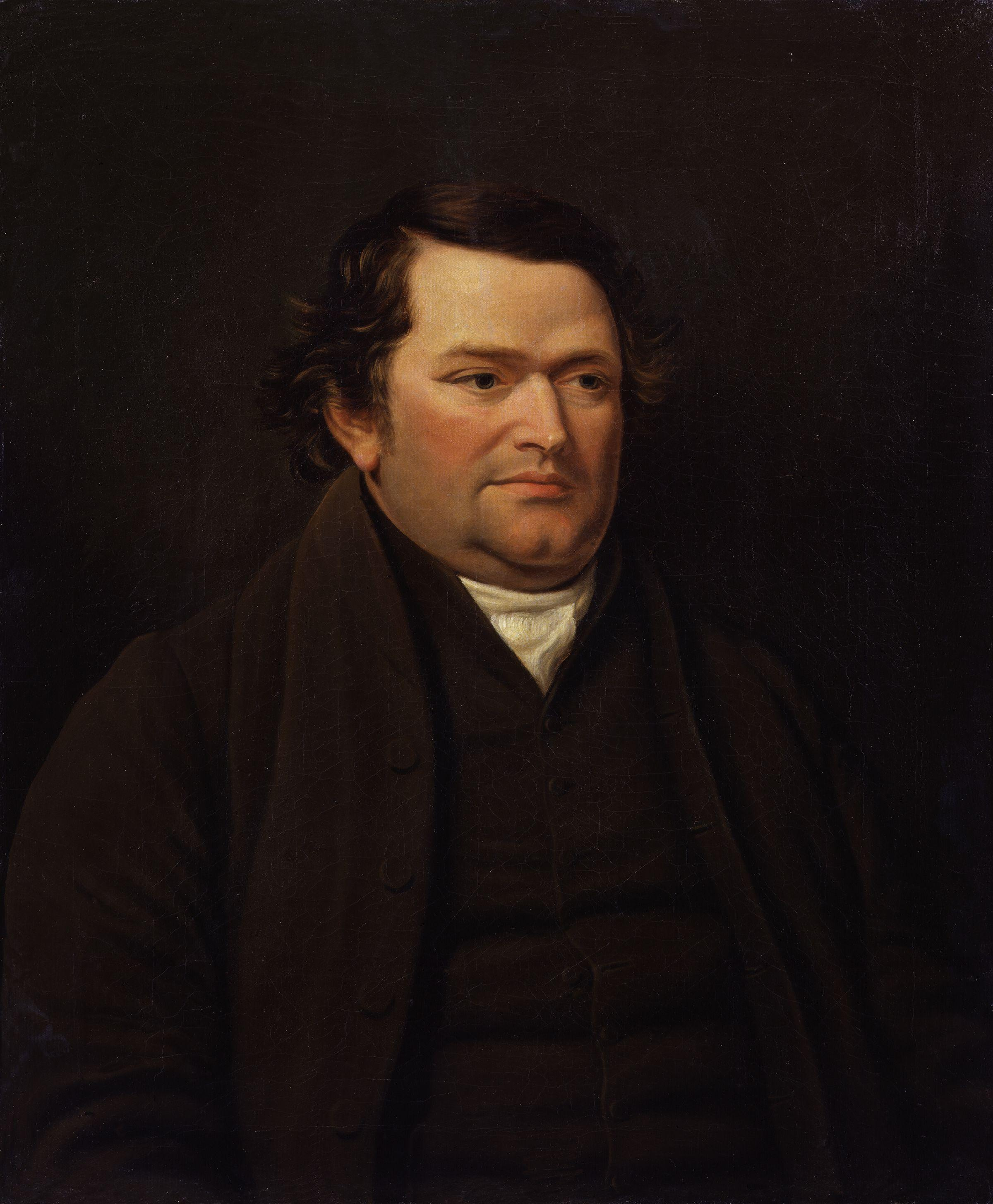 Joseph Lancaster, by John Hazlitt (died 1837), given to the National Portrait Gallery, London in 1860. All images in this batch have been confirmed as author died before 1939 according to the official death date listed by the NPG.